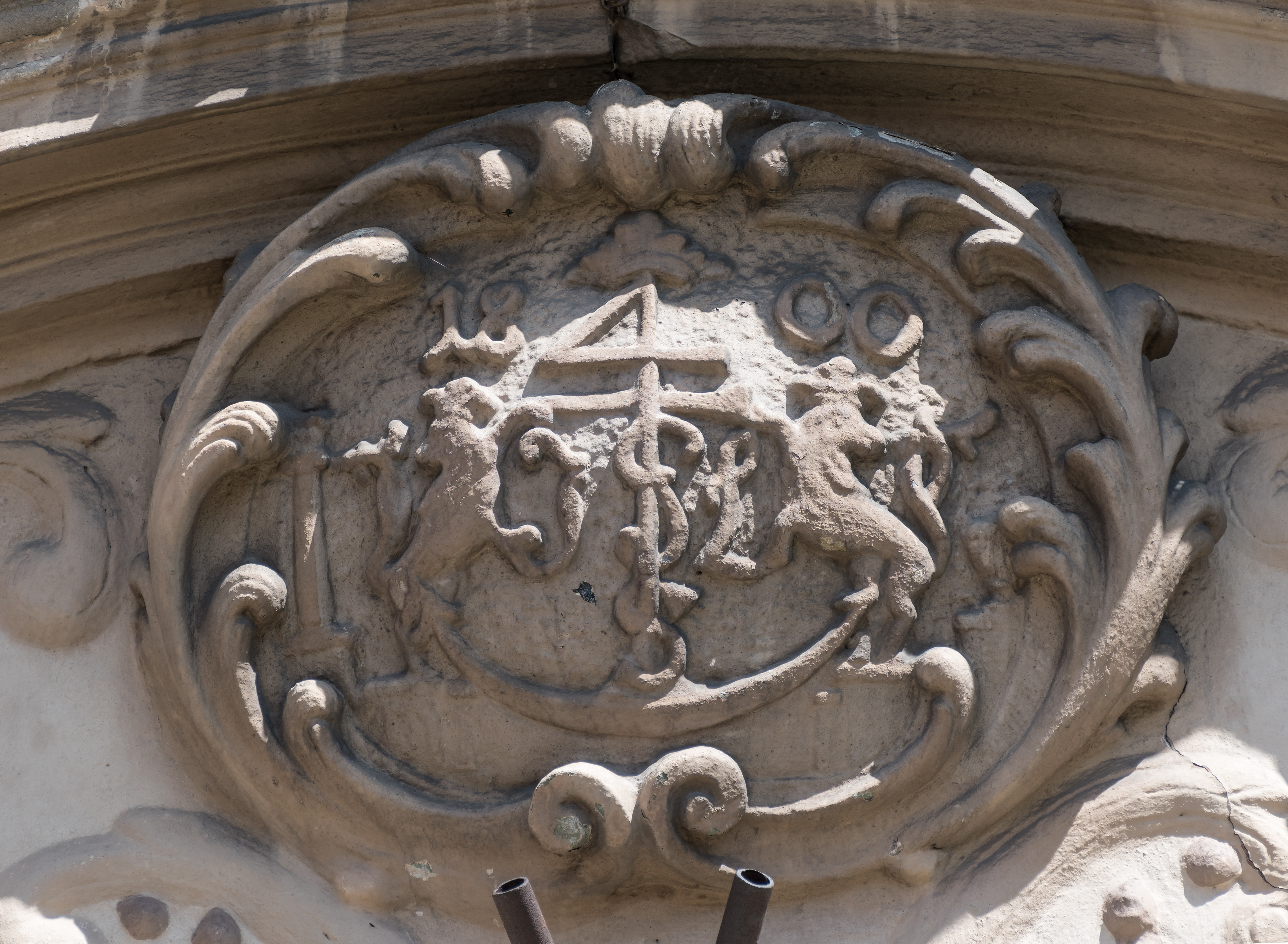 41 Grunwaldzka Street in Głuszyca